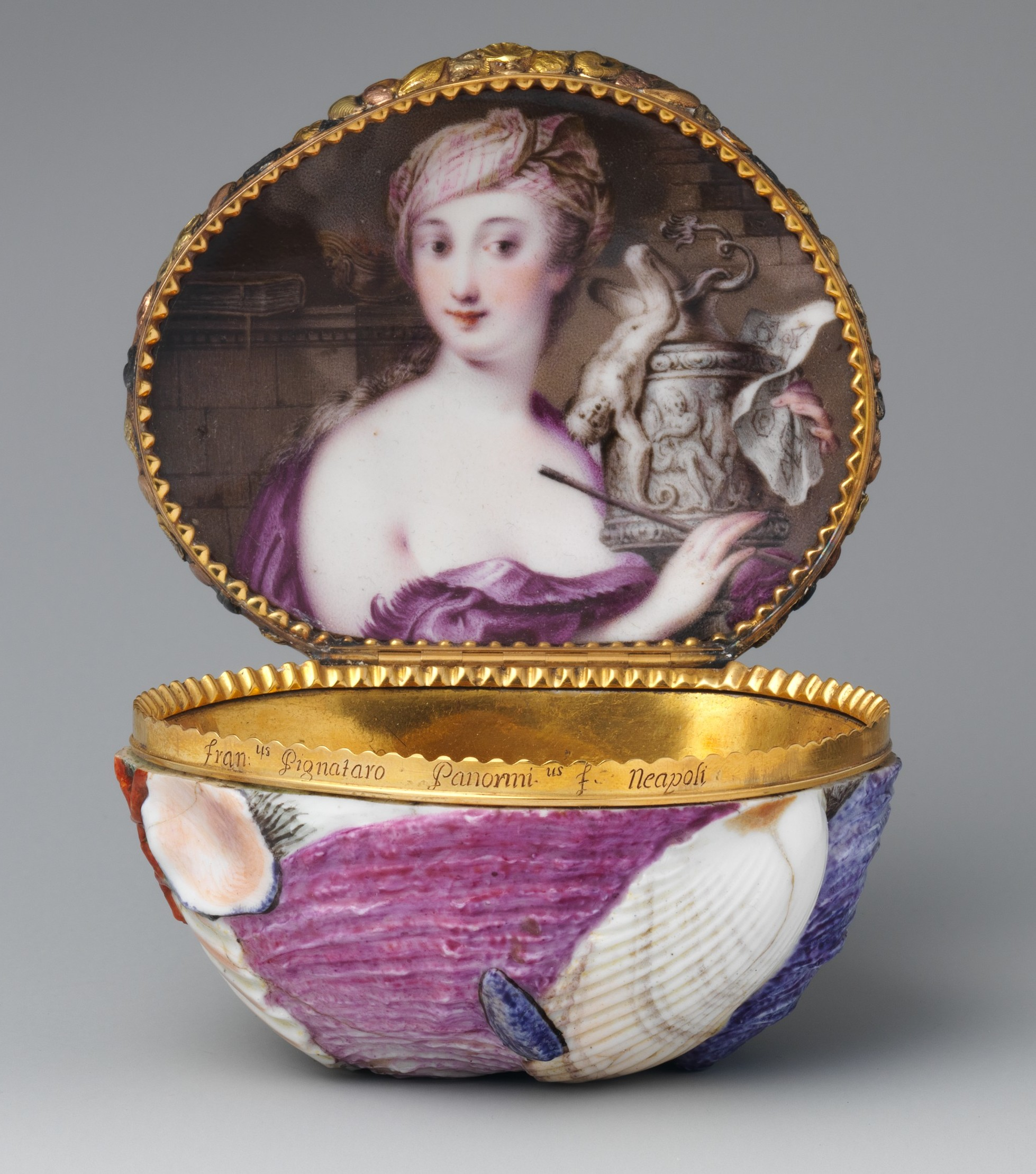 Italian, Naples; Snuffbox; Ceramics-Porcelain